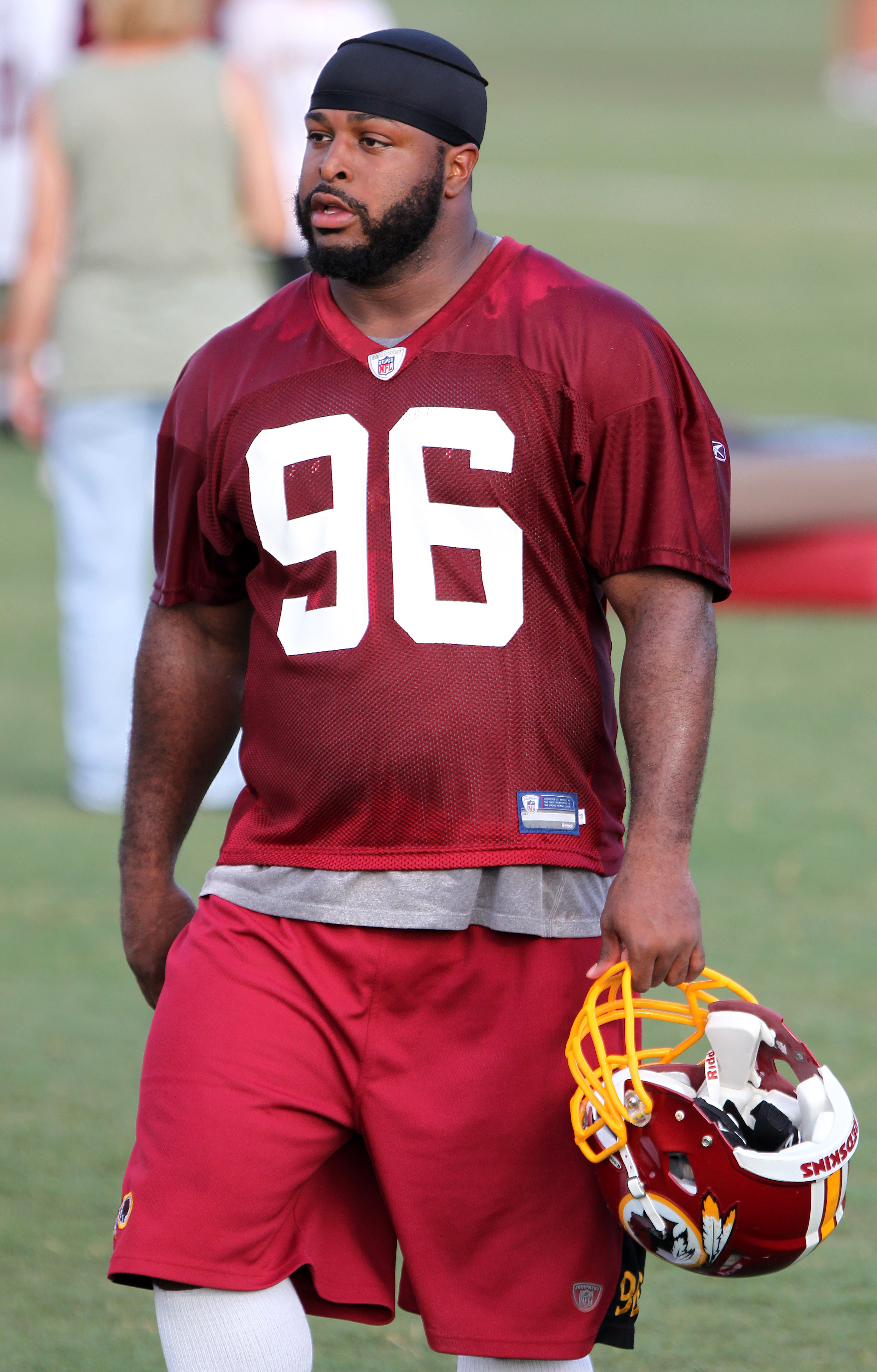 Washington Redskins Training Camp August 4, 2011